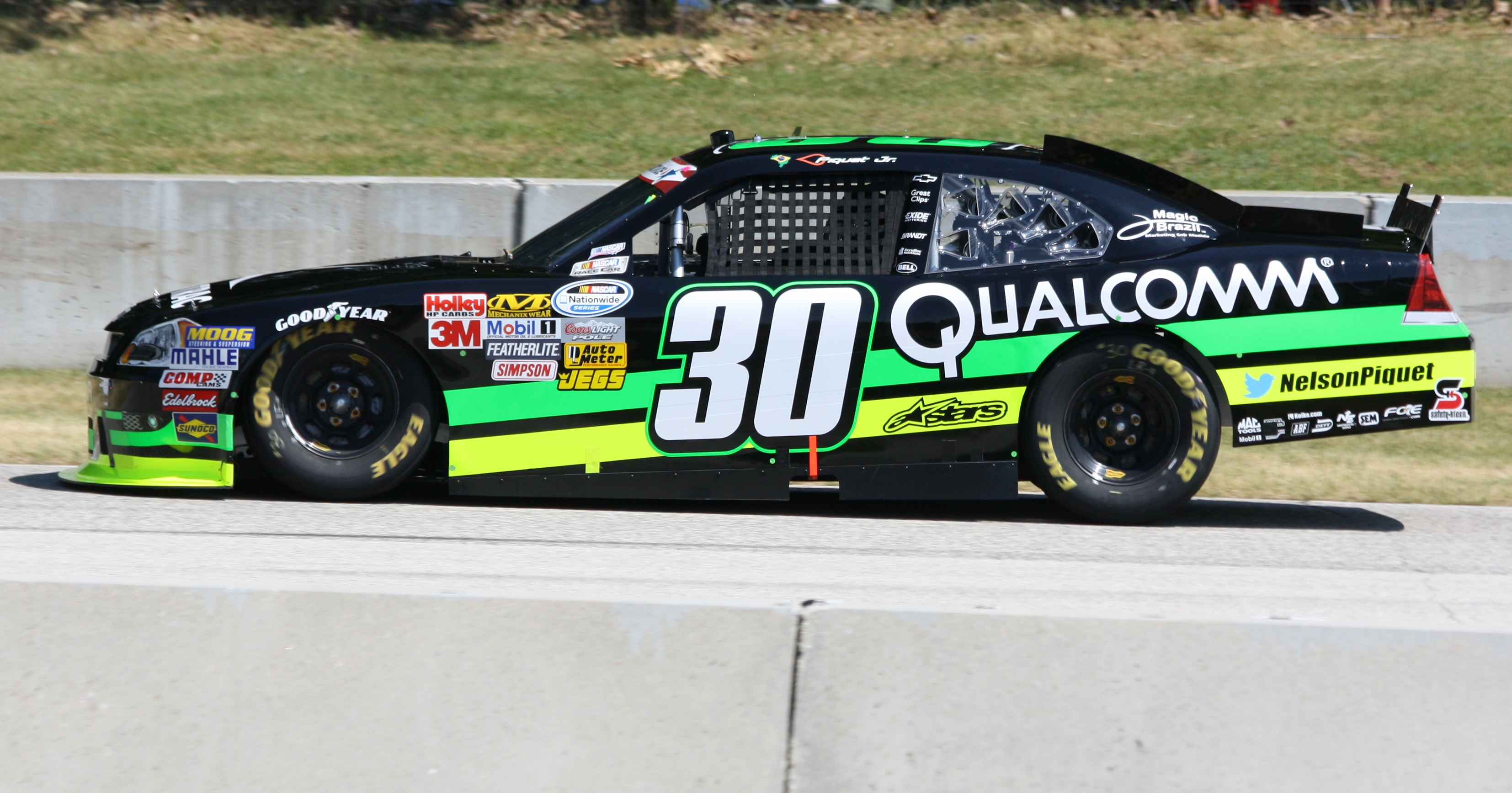 NASCAR driver Nelson Piquet, Jr. at the 2012 Sargento 200 Nationwide Series race at Road America. He won his first NASCAR race at the track after winning the pole position.